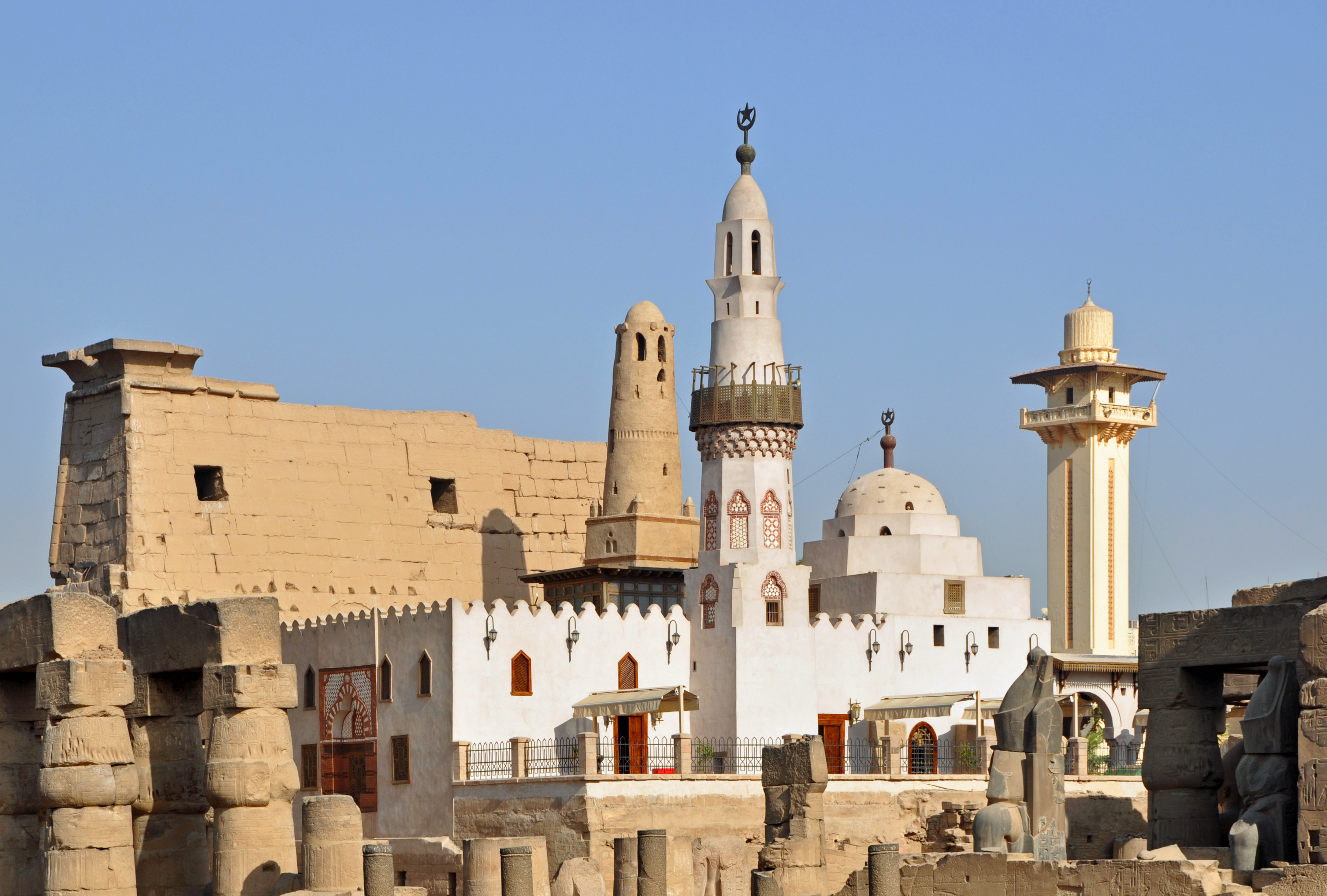 Luxor (Egypt): the Abu el-Haggag mosque in Luxor Temple and the minaret of the New Mosque